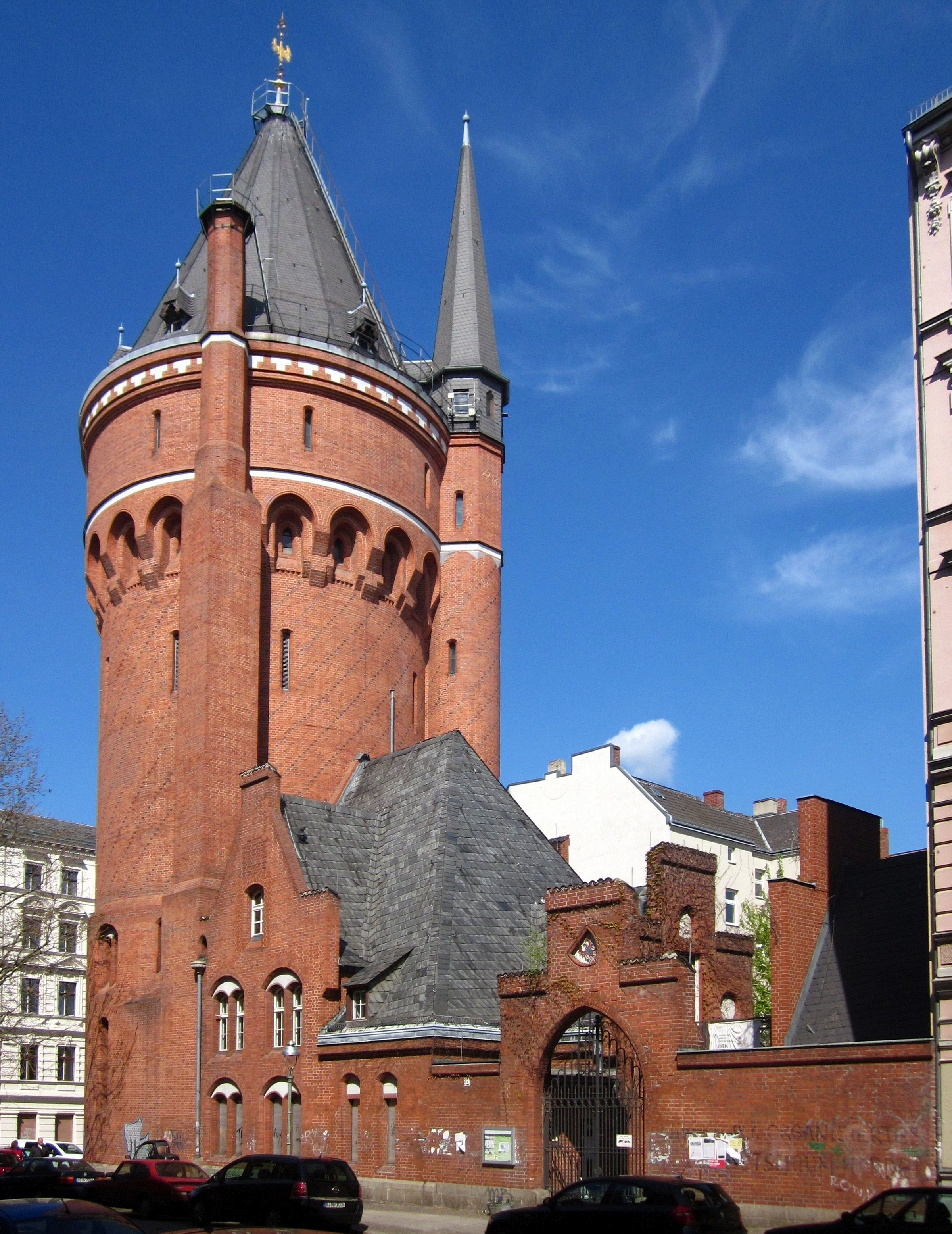 Historic water tower at Kopischstraße No. 7, here seen from Fidicinstraße, in Berlin-Kreuzberg. The tower was built from 1887 to 1888 to a design by Hugo Hartung and Richard Schultze. It has been designated a cultural heritage monument. It is also part of the protected historic buildings area Chamissoplatz.